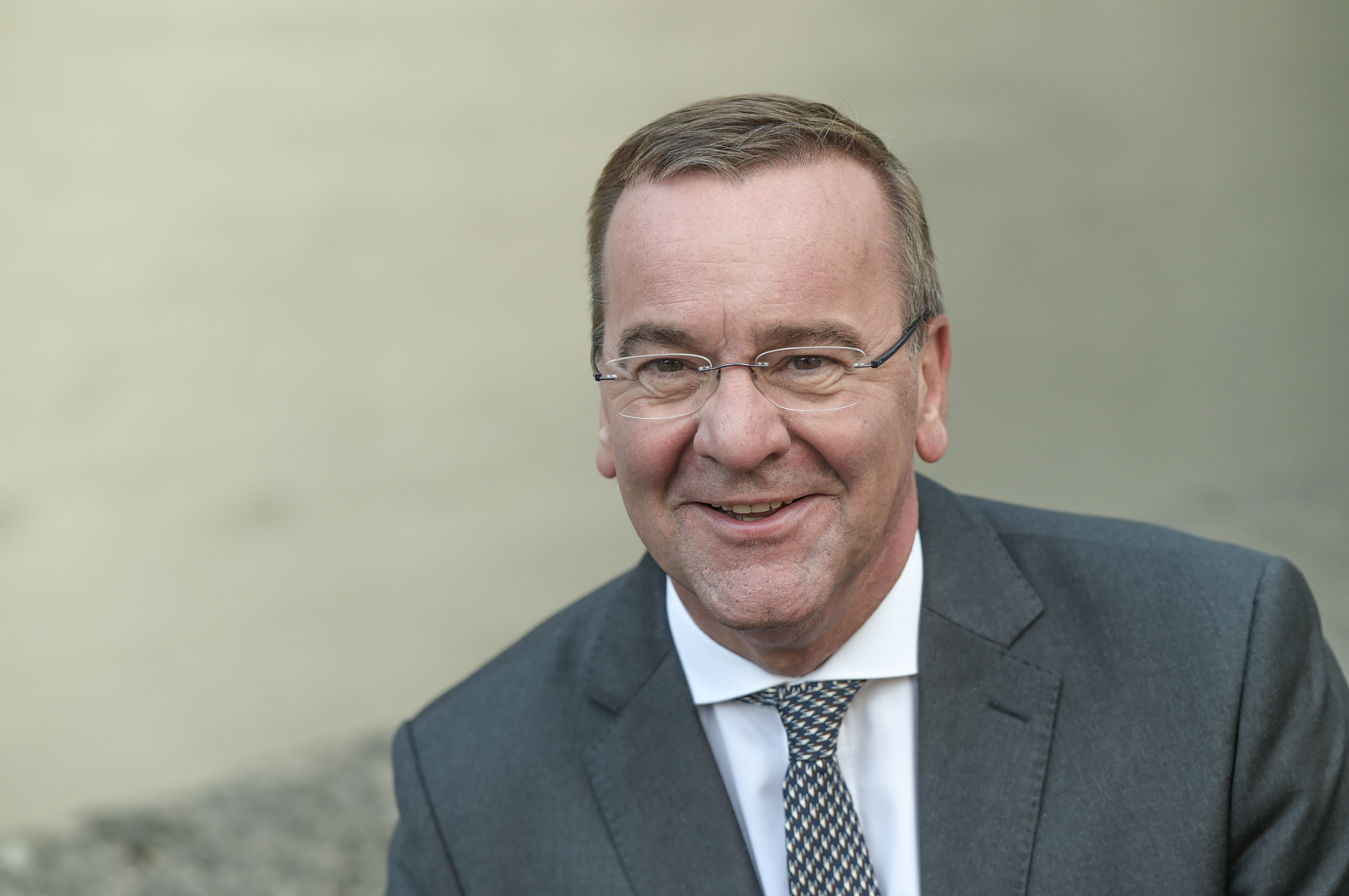 Lower Saxony’s Minister for inner affairs and sports